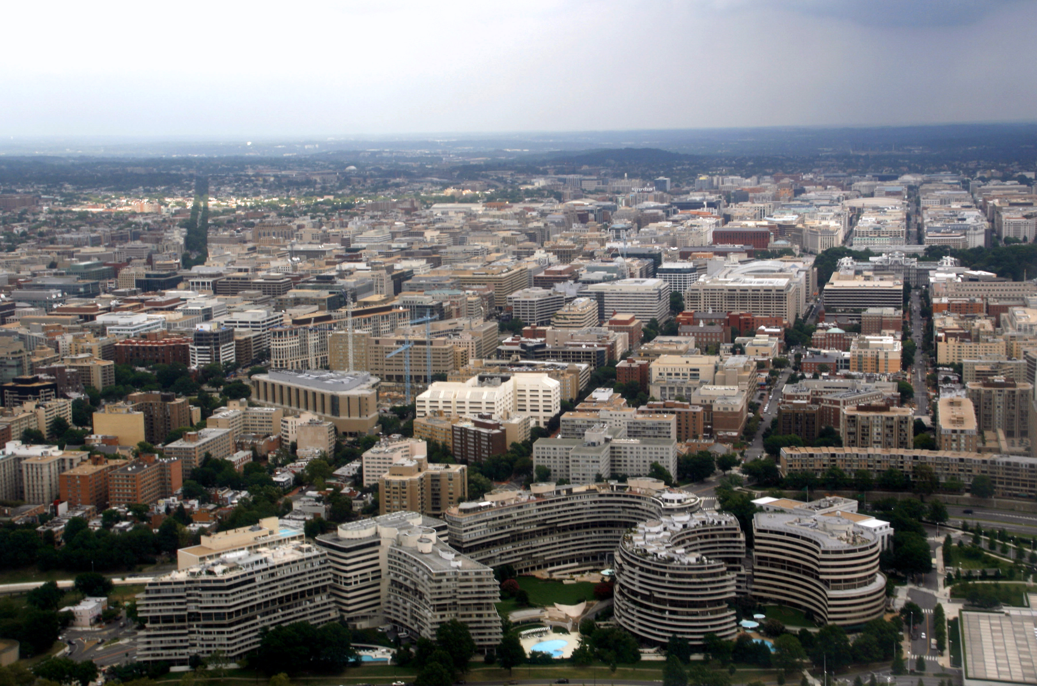 Aerial view eastward of the Foggy Bottom neighborhood in Washington, D.C. The Watergate complex is in the foreground.